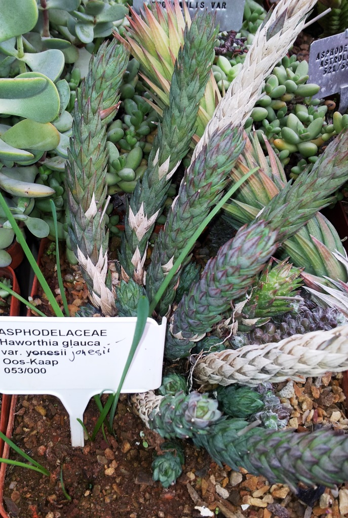 Stellenbosch - Haworthia glauca - jonesiae variety